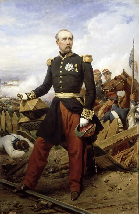 Patrice de Mac-Mahon, president of France 1873-1879